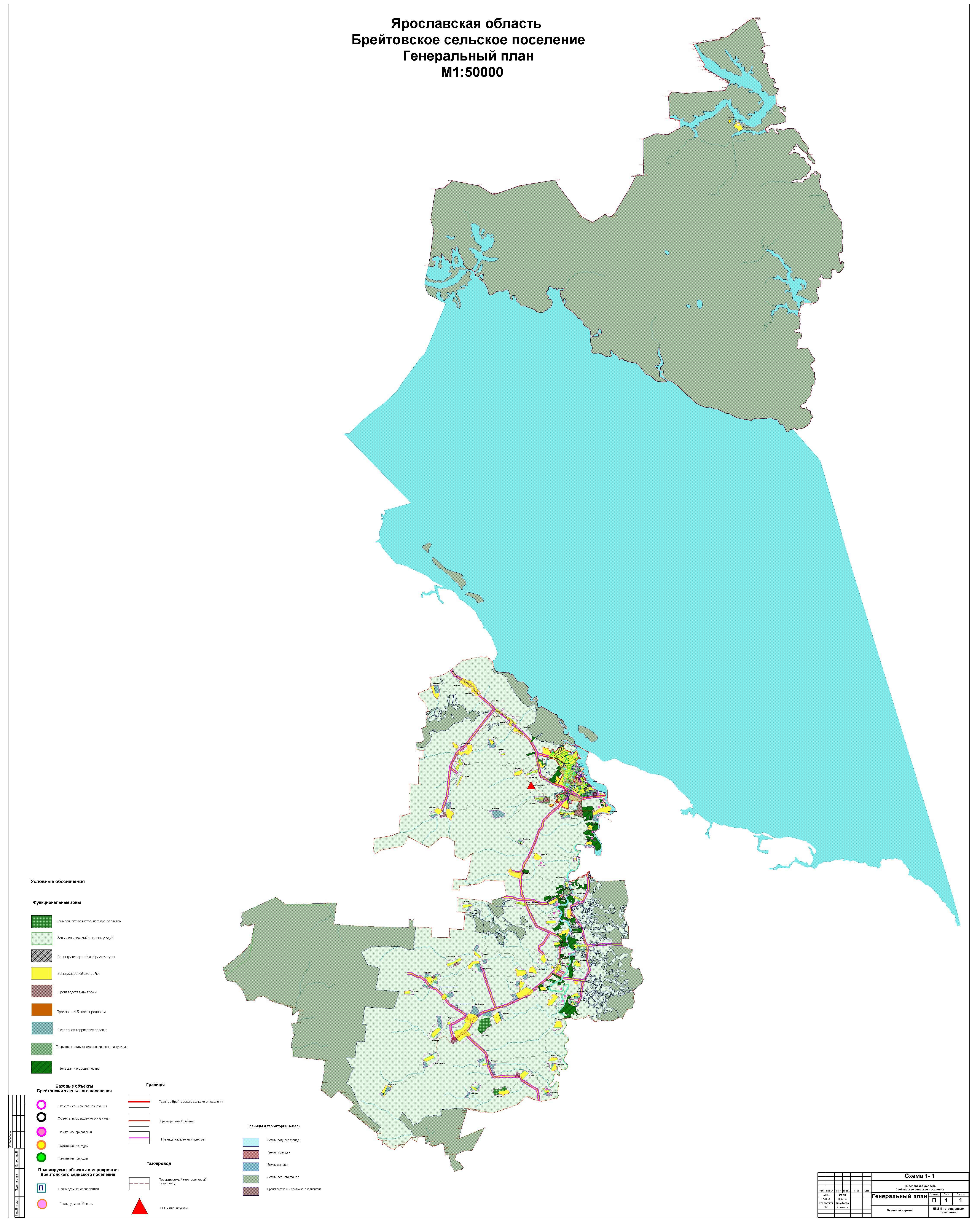 General plan of Breytovo rural settlement 2008. Comprehensive plan.